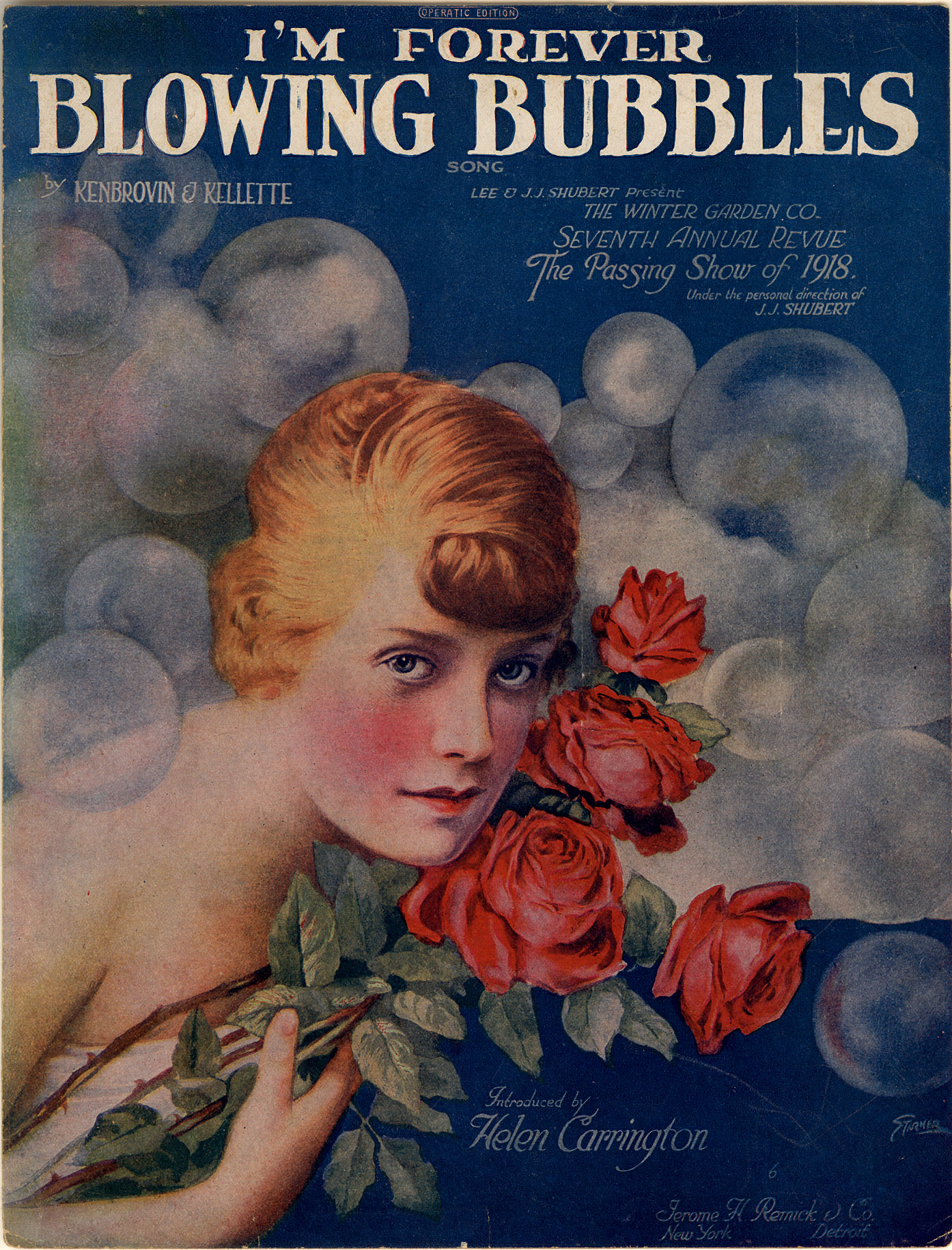 Sheet music cover for I'm Forever Blowing Bubbles; Passing show of 1918